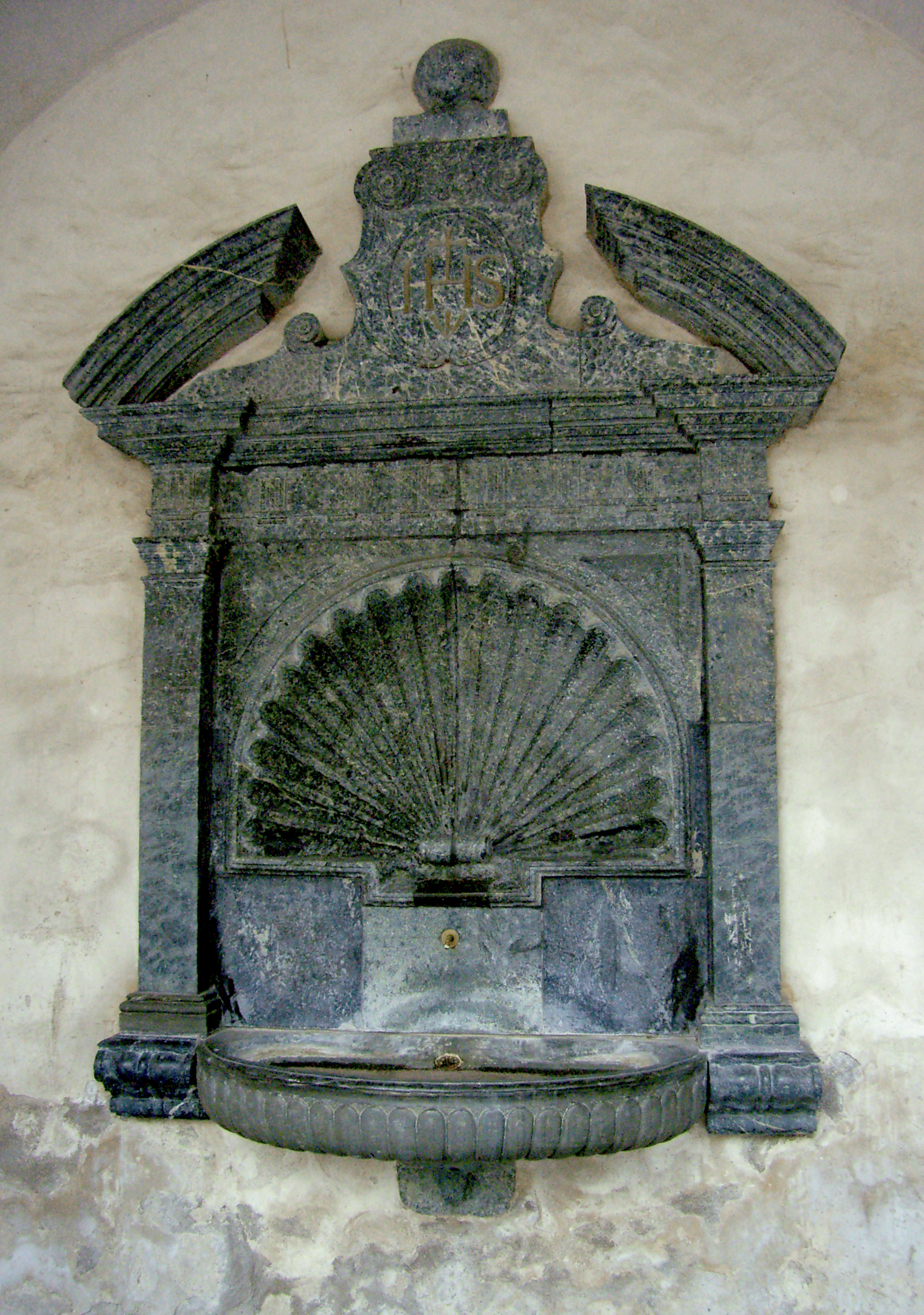 fountain of Stockalper Palace (Brig, Valais, Switzerland) serpentinite